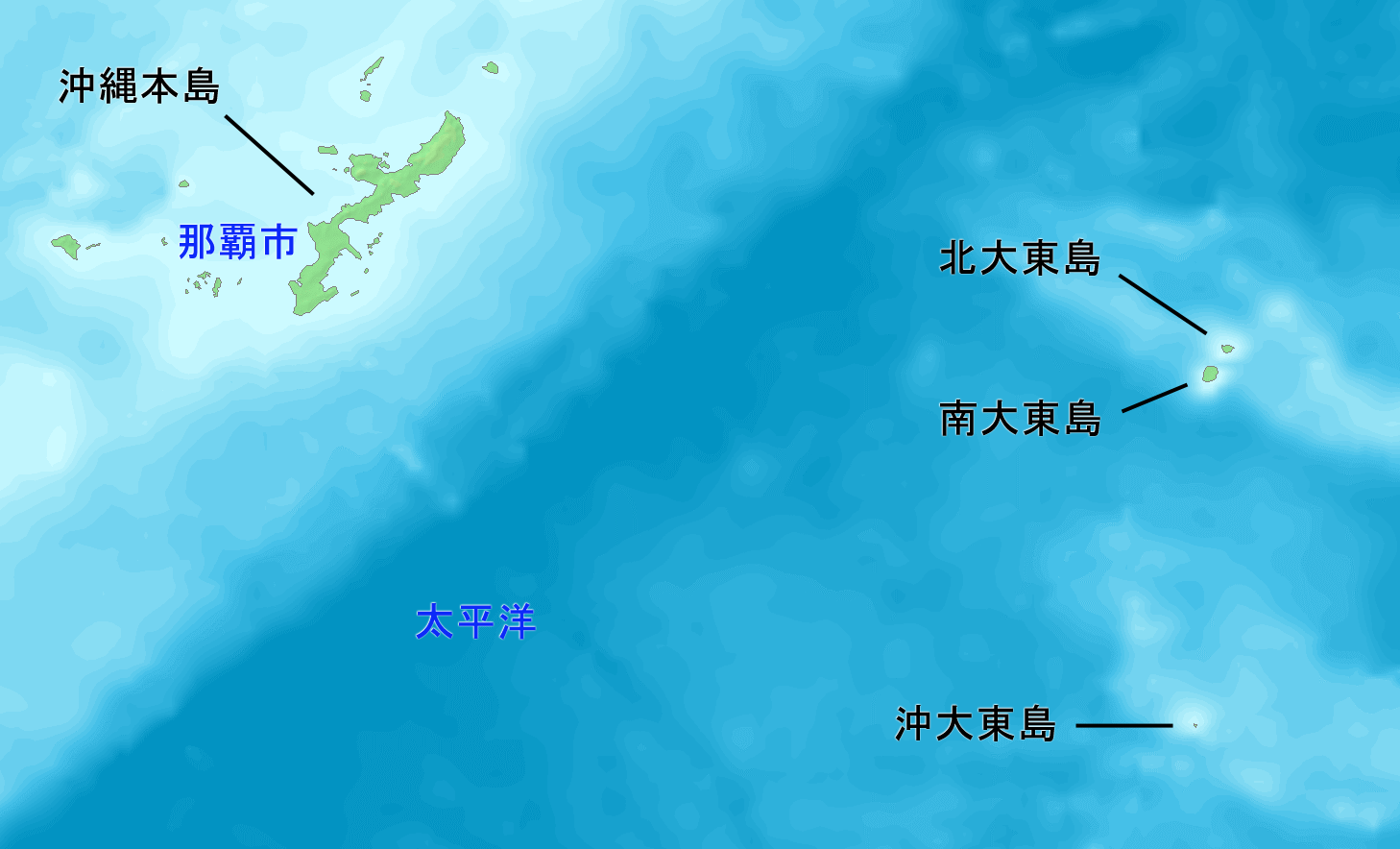 Map of Daito Islands (in Japanese).